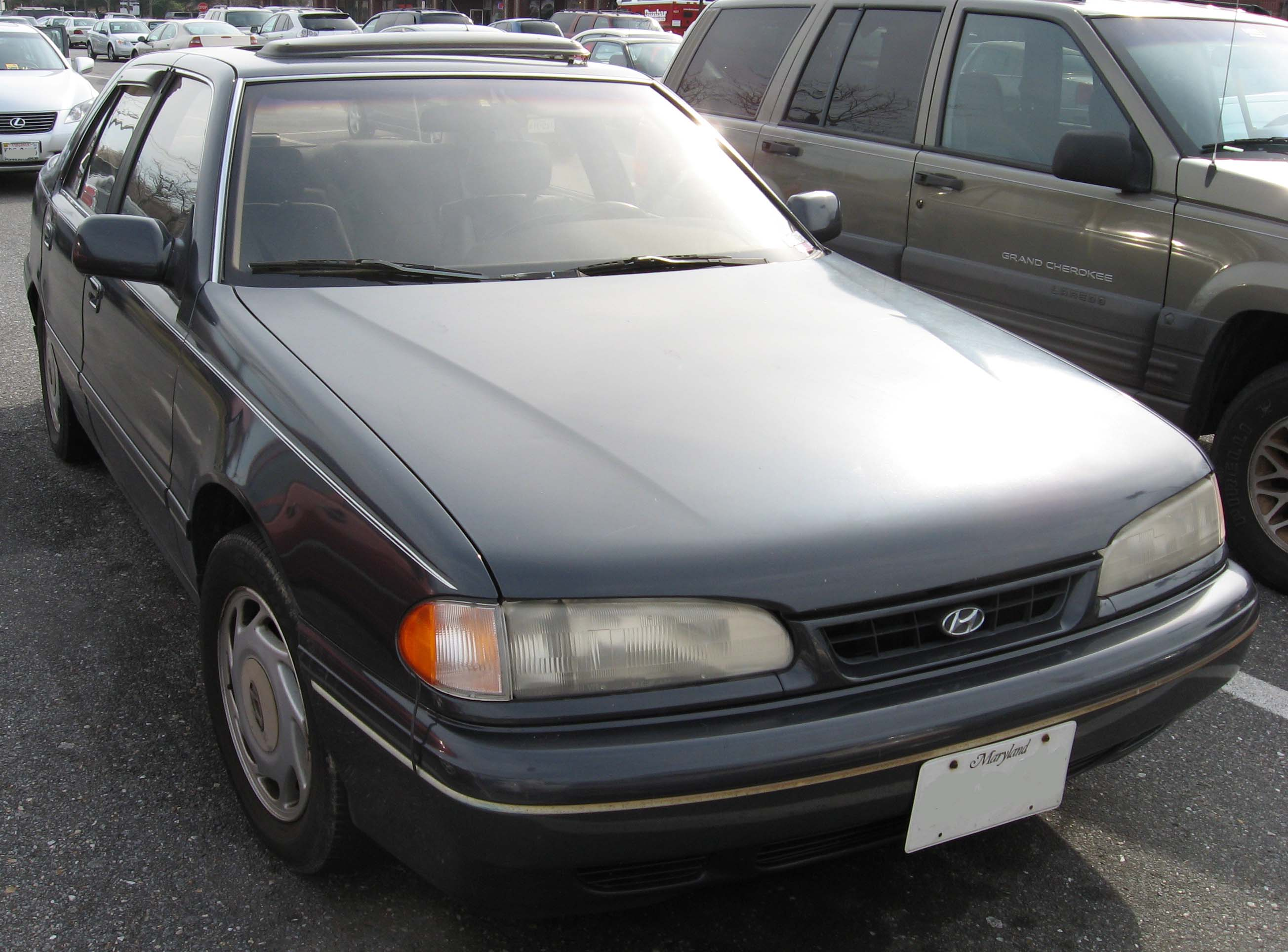 1992-1993 Hyundai Sonata photographed in USA.